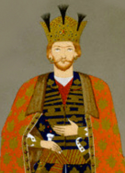 King Alexander I of Georgia